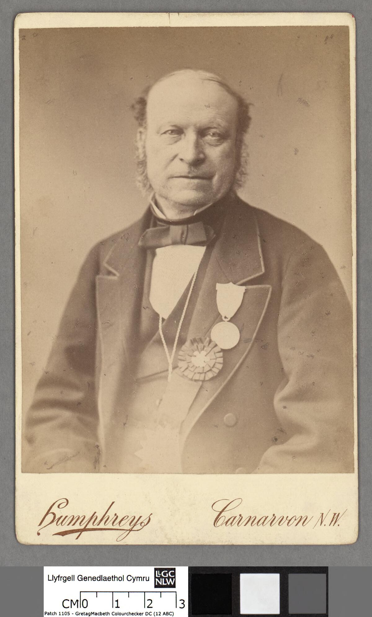 A portrait from the Welsh Portrait Collection at the National Library of Wales. Depicted person: Thomas Essile Davies – Welsh poet